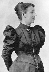 A photograph taken by Barrows for his book The Worlds Parliament of Religions (1893) showing the feminist Laura Ormiston Chant (1848 – 1923).